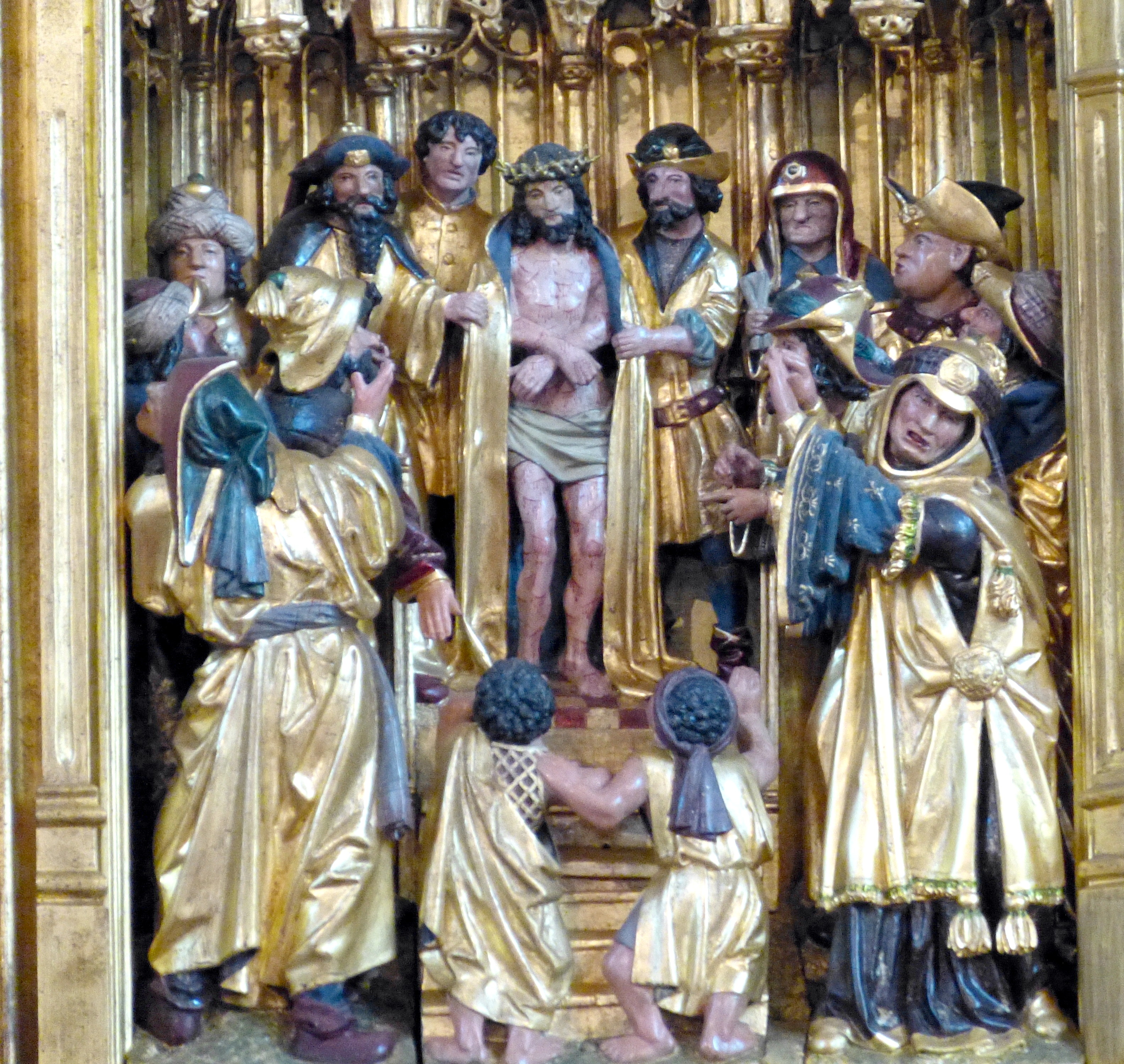 Güstrow ( Mecklenburg-Vorpommern ). Saint Mary parish church: High altar ( 16th century ) by Jan Borman - Ecce homo.